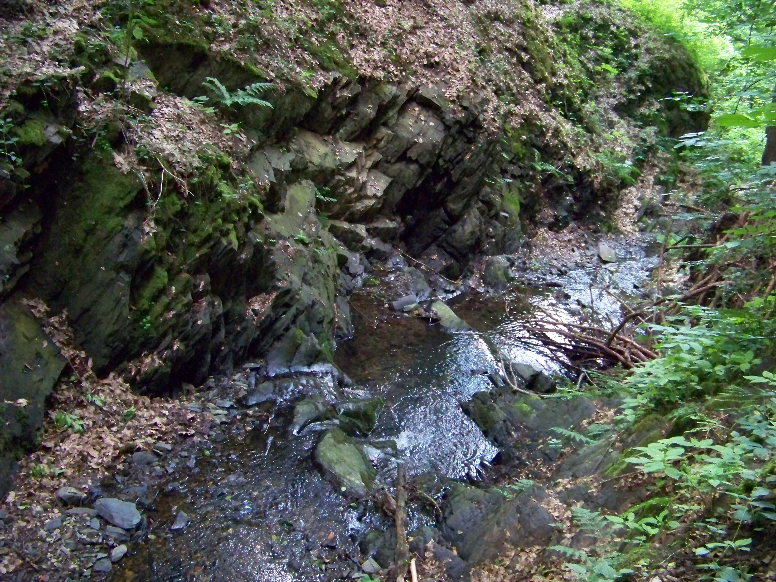 Dolní Břežany-Lhota, Prague-West District, Central Bohemian Region, the Czech Republic. Károv Valley, Károv Creek.